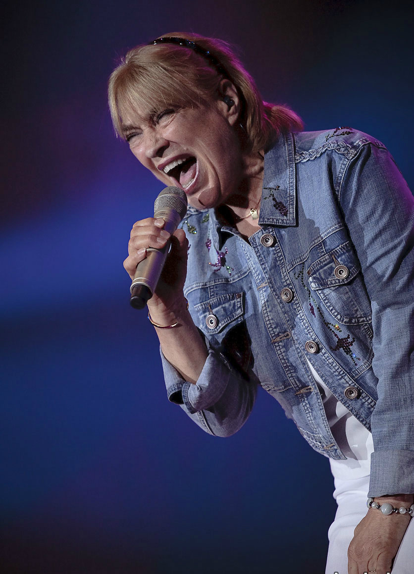 Kovács Kati - Sziget Festival Main Stage 2012